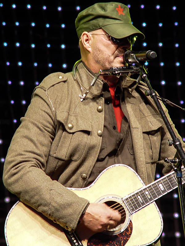 Bubbi Mortens @ Laugardalsvöllur